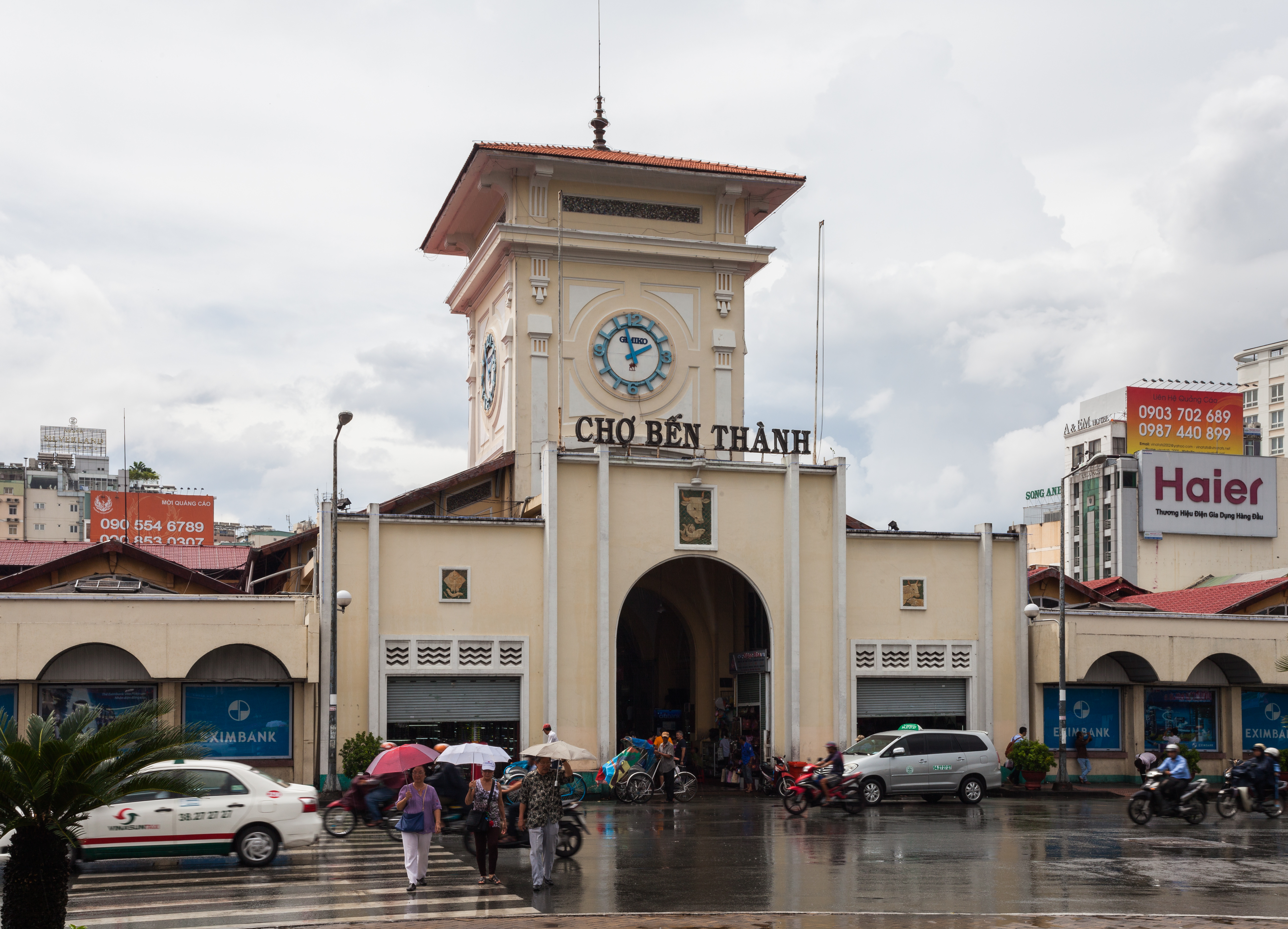 Ben Thanh Market, Ho Chi Minh City, VietnamTiếng Việt: Chợ Bến Thành, Thành phố Hồ Chí Minh, Việt Nam.